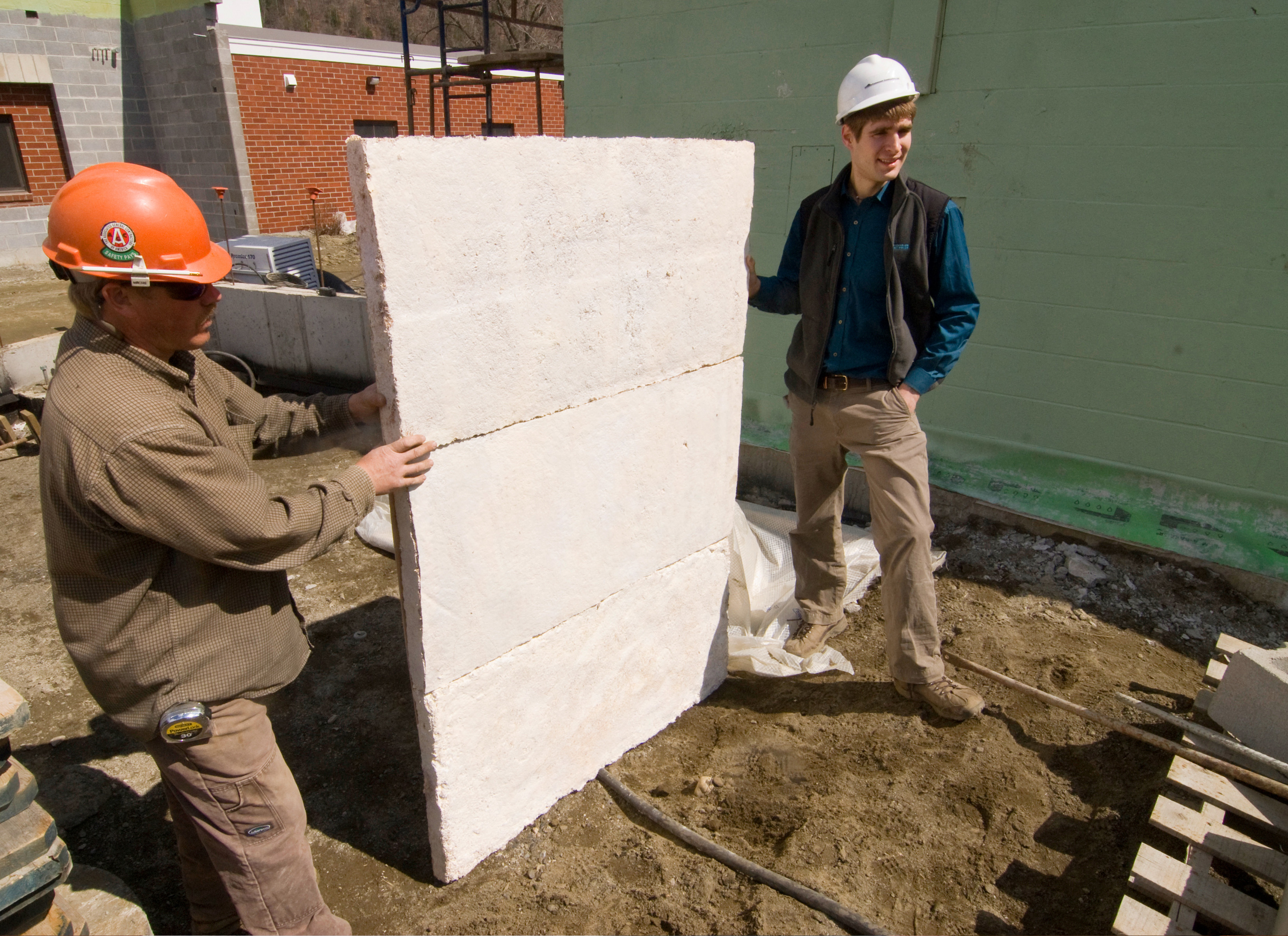 An insulating panel made by Ecovative Design that is about to be installed.